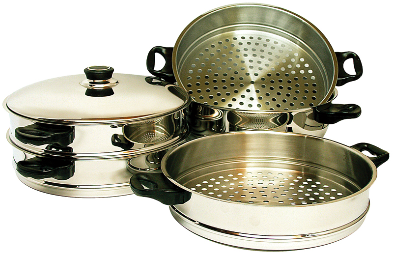 Mantovarka, steam cooker for manti